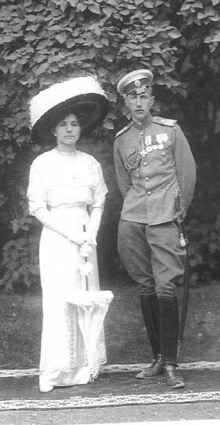 Princess Jelena with her husband Prince Ioann Konstantinovich of Russia